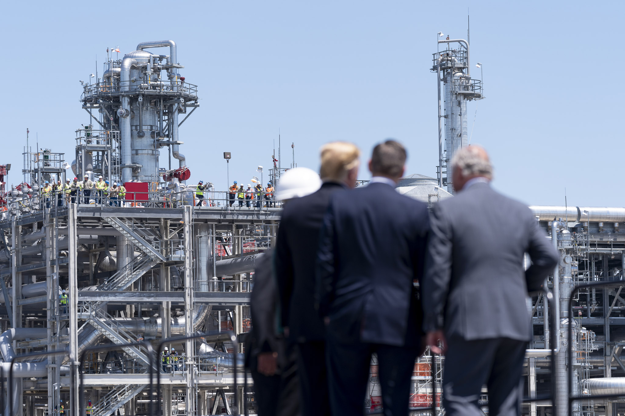 President Donald J. Trump participates in a walking tour of Cameron LNG Export Terminal Tuesday, May 14, 2019, in Hackberry, La. (Official White House Photo by Shealah Craighead) 29 views 0 faves 0 comments Taken on May 14, 2019 Public domain Tags Winner